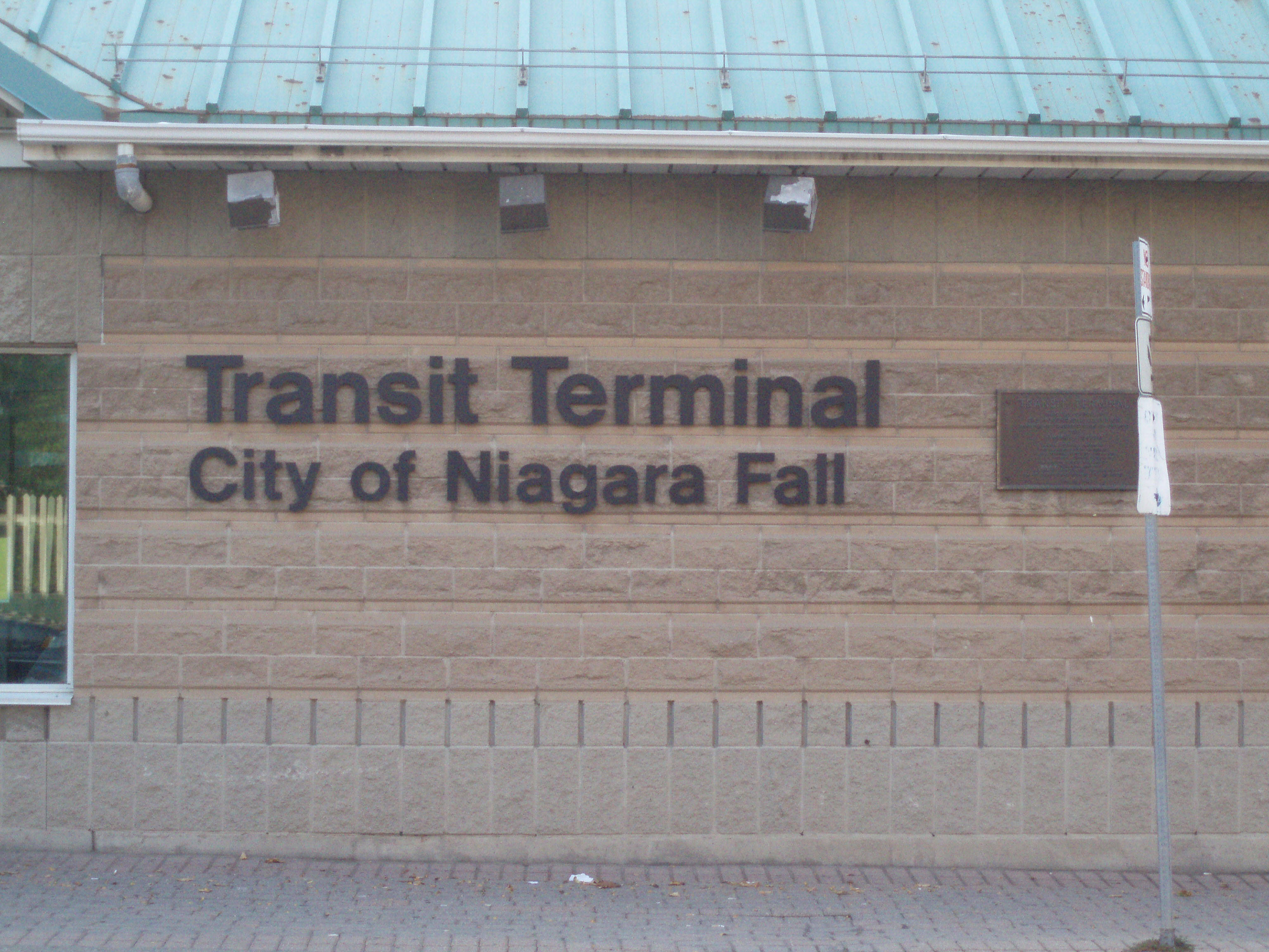 Signage outside Niagara Falls Transit Terminal.